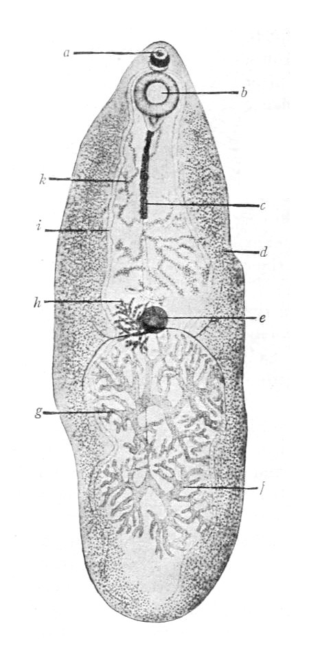 Drawing of entire specimen of Fasciolopsis buski (Digenea: Fasciolidae). a – oral sucker, b – acetabulum (ventral sucker), c – cirrus pouch, d – vitelline glands, e – “shell-glands”, f and g – posterior and anteroir testicles, h – ovary, i – cecum, k – uterus.